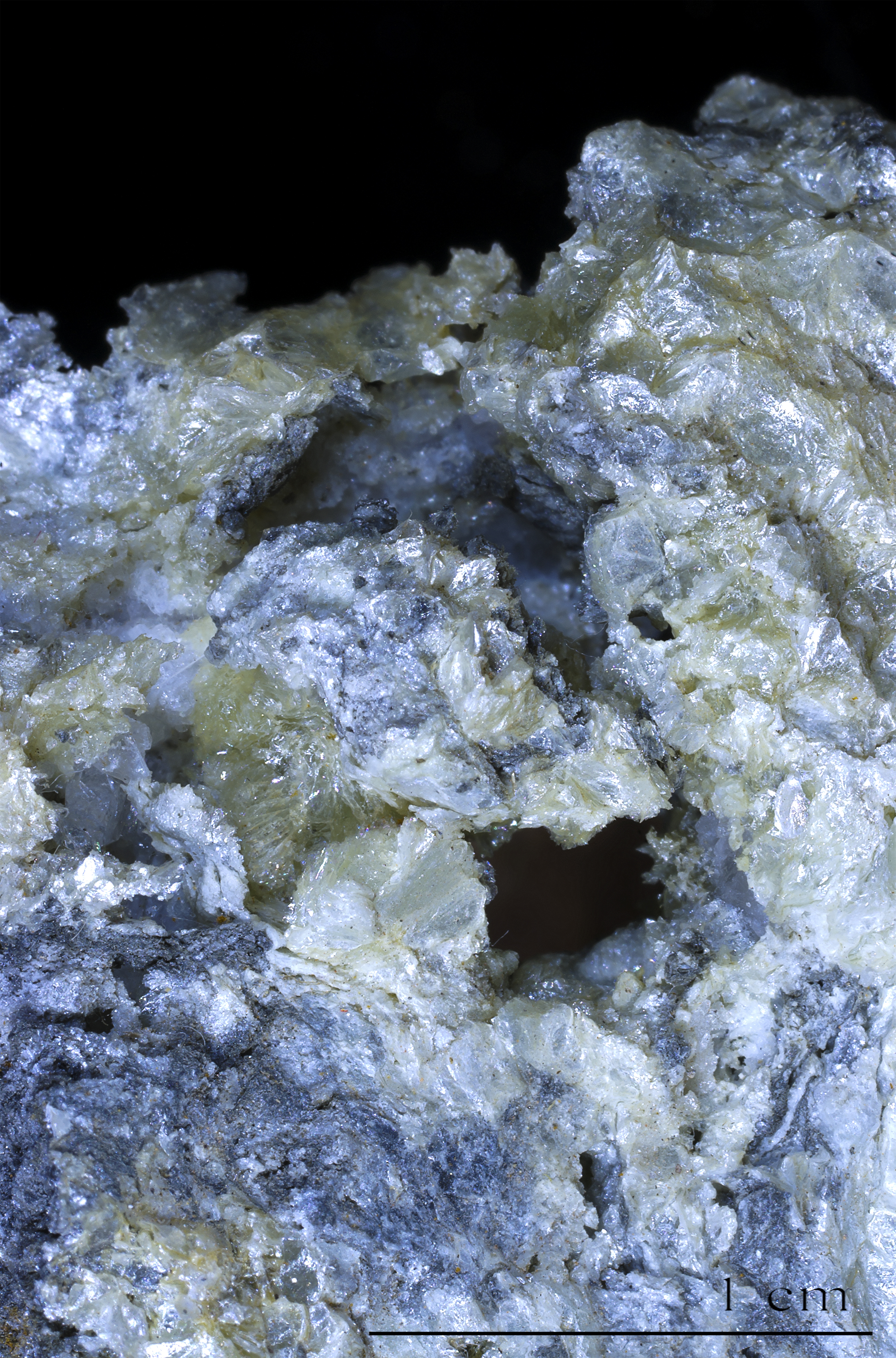 Cokkeite Locality : Goutasson, Couledoux, Haute-Garonne, Midi-Pyrénées, France.